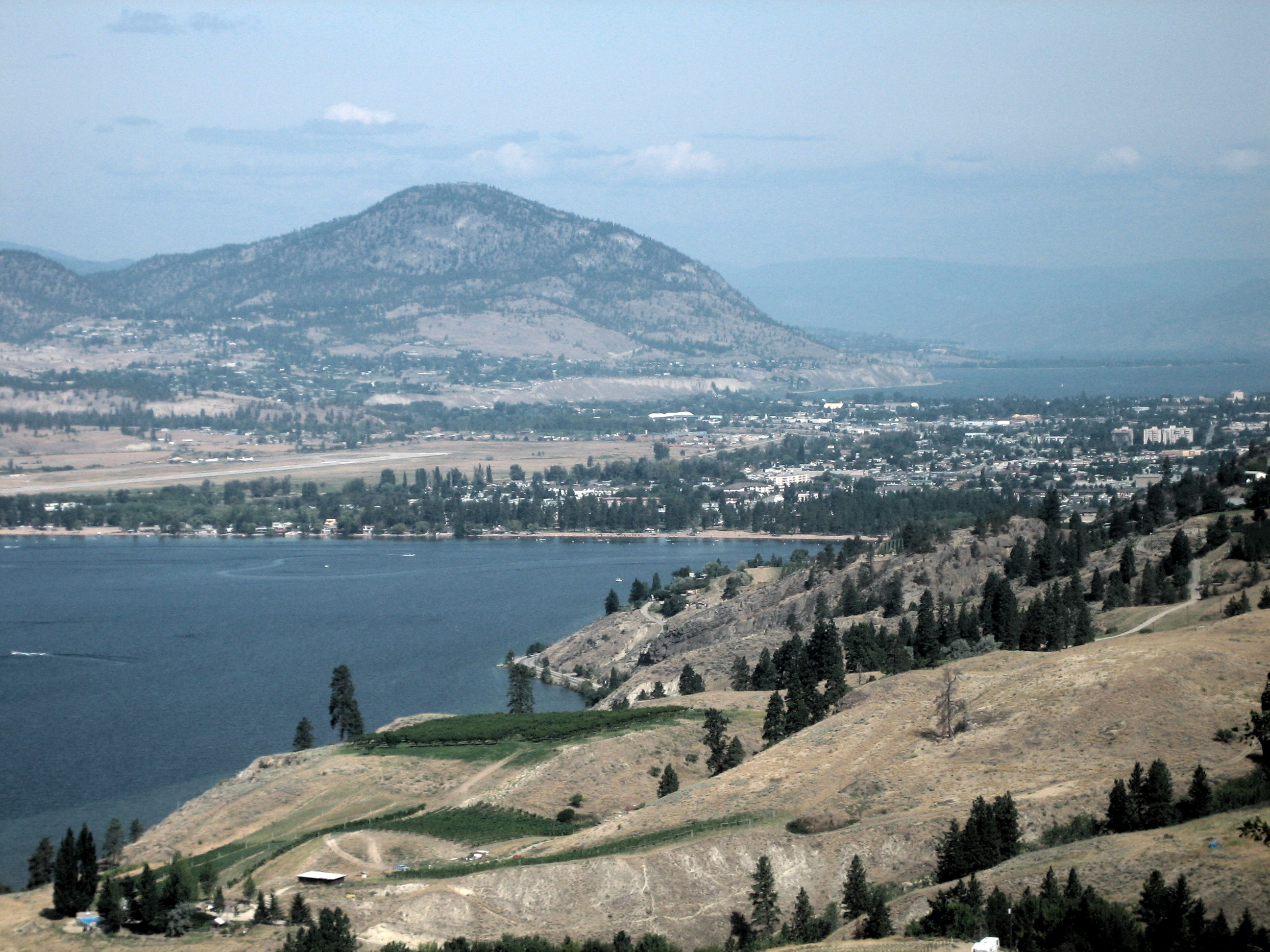 A view from the south of Penticton, British Columbia. In the foreground is Lake Skaha, while Lake Okanagan may be seen in the background. Penticton Regional Airport is visible to the left of the image. Image by Fawcett5, August, 2005.